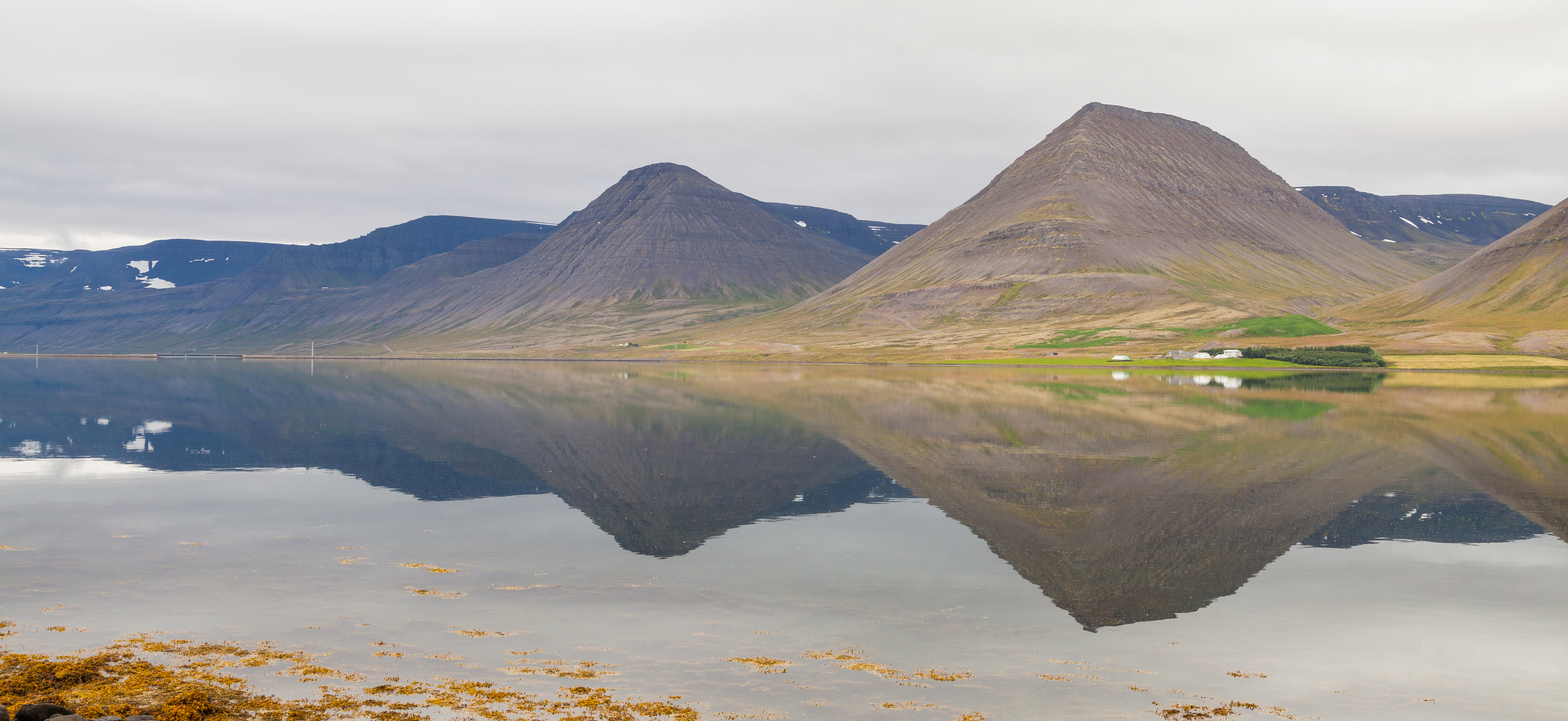 Dýrafjörður, Vestfirðir, Iceland